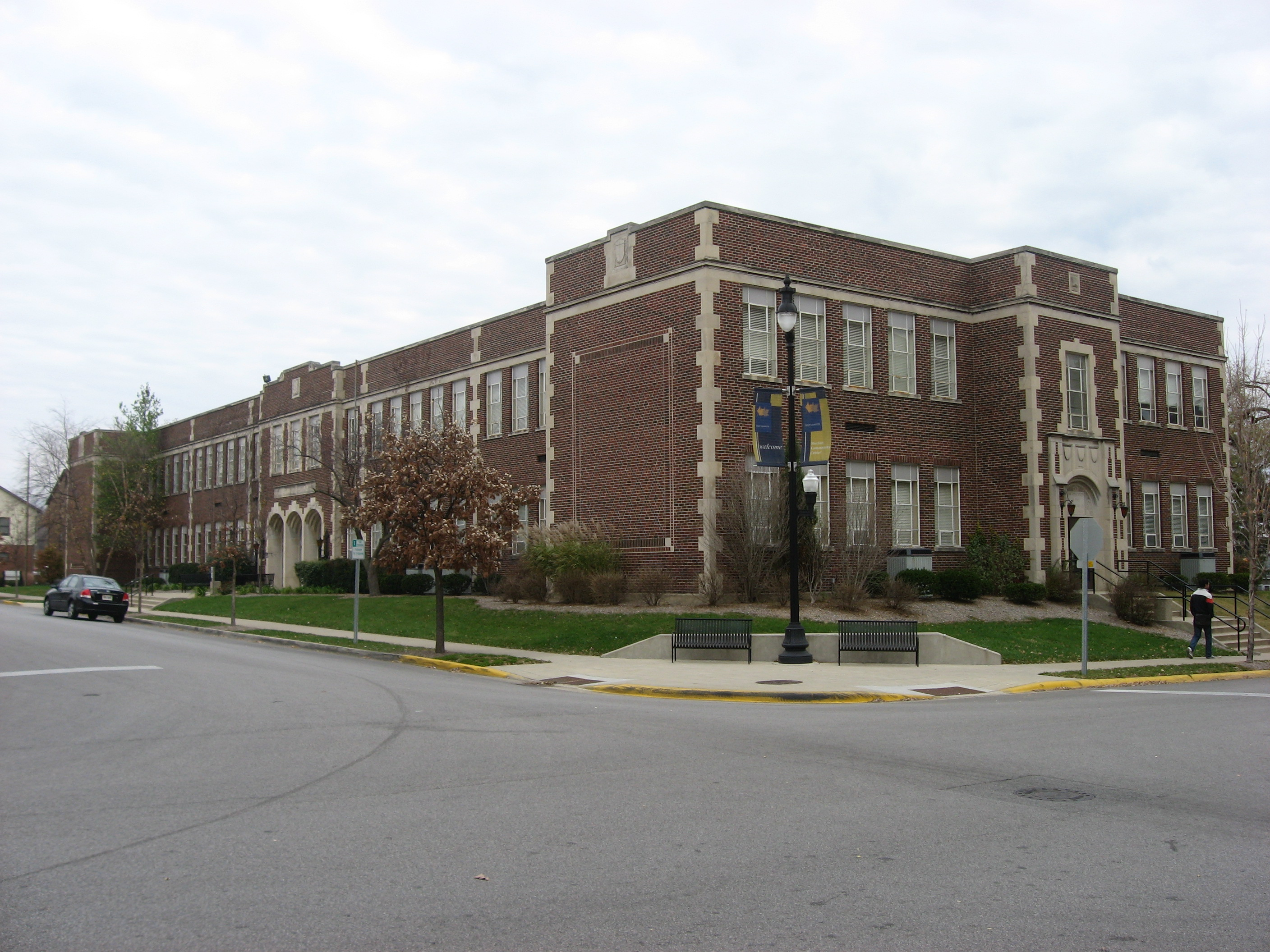 Front and southern side of the Morton School, located at 222 N. Chauncey Avenue in West Lafayette, Indiana, United States. Built in 1930, it is listed on the National Register of Historic Places.